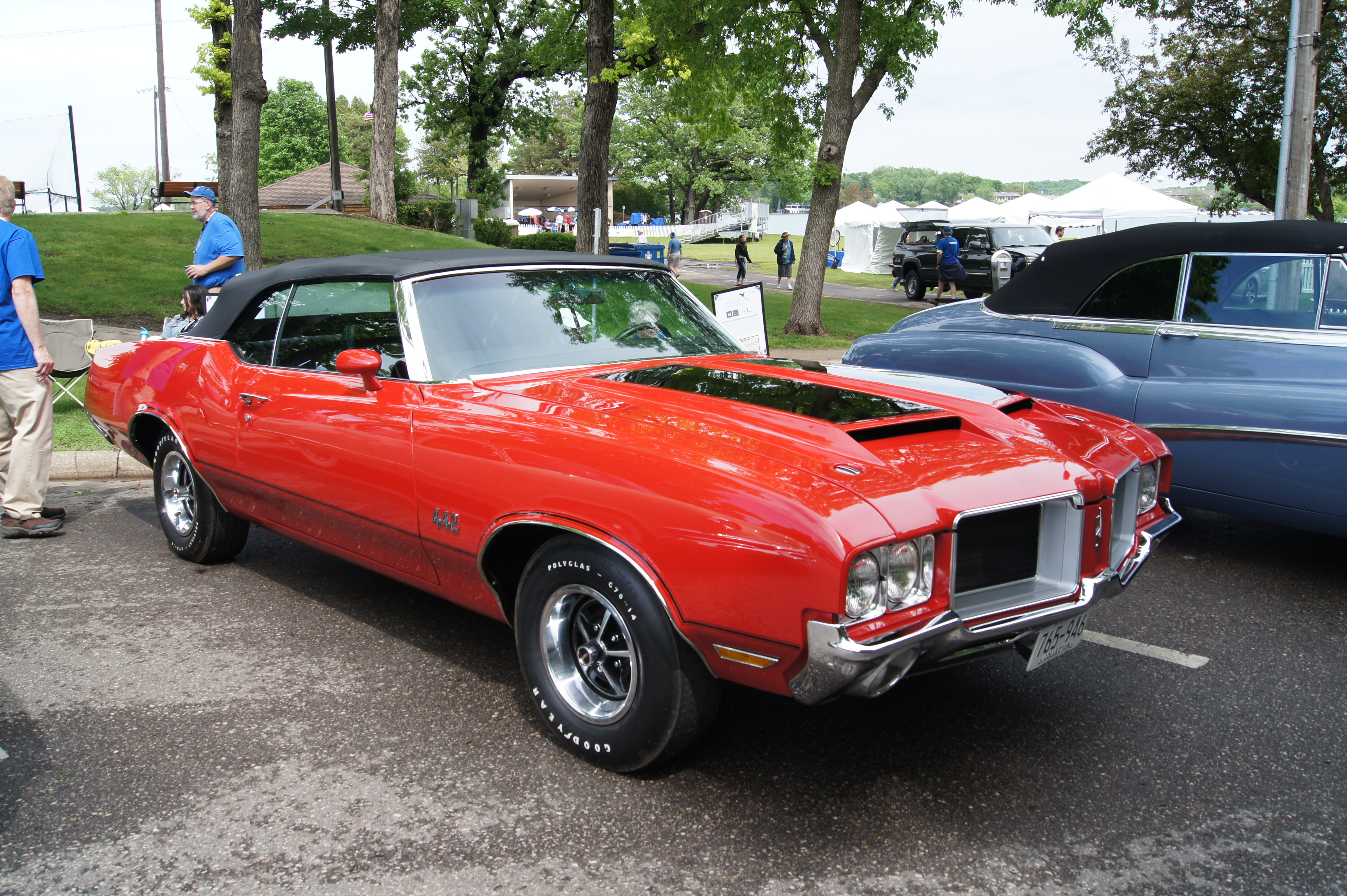 2nd Annual 10,000 Lakes Concours d'Elegance to Benefit Courage Center Foundation June 1, 2014 Excelsior Commons Excelsior Minnesota Thousands of car pictures at the link below